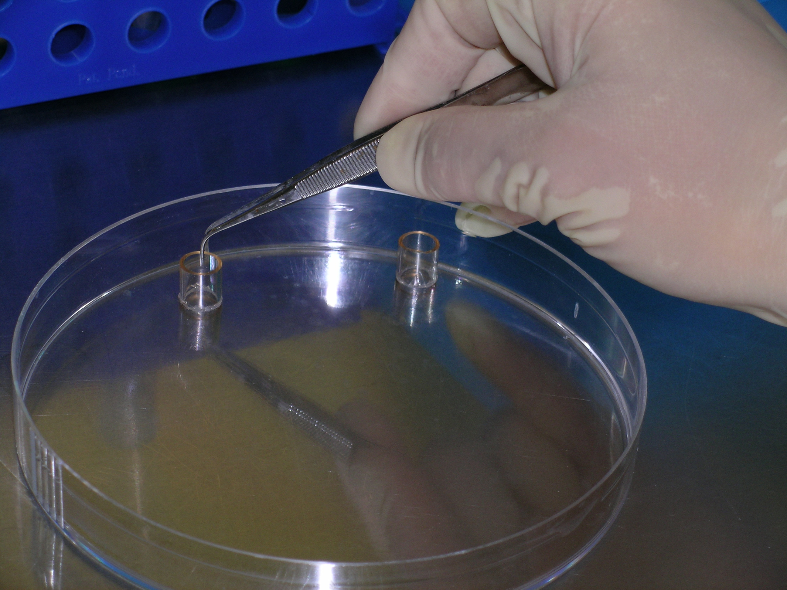 Human cell-line colony being cloned in vitro through use of cloning rings. Own work - photo made by Bob Walker in 2006.